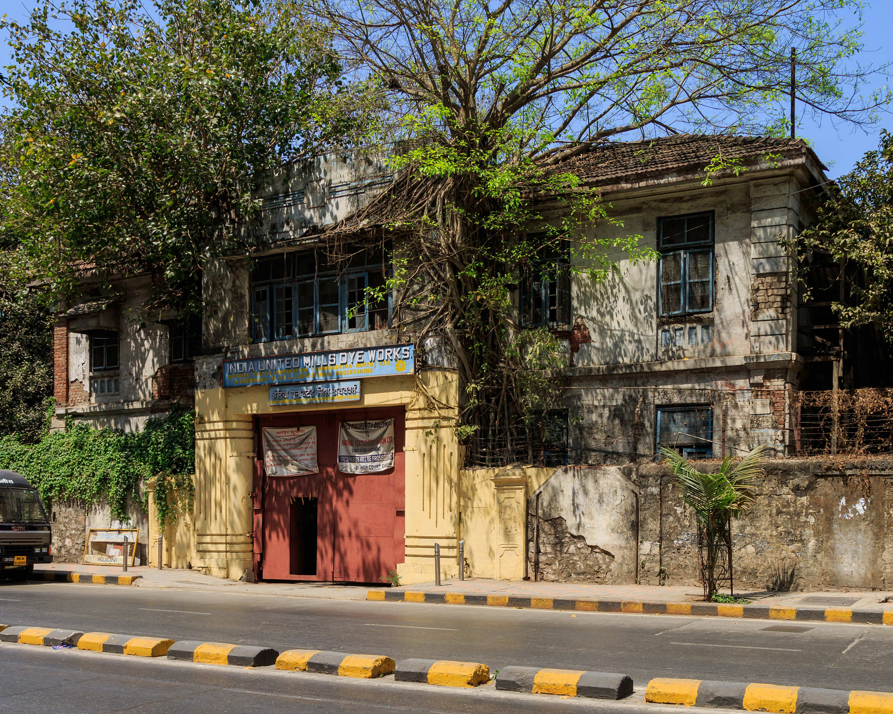 Former Dadar cotton mill (India United Mills No. 6) in Mumbai, India